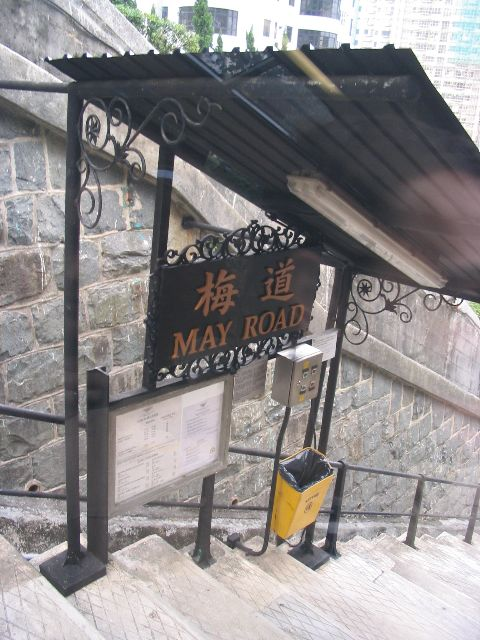 山頂纜車-梅道站 May Road Station, Peak Tram